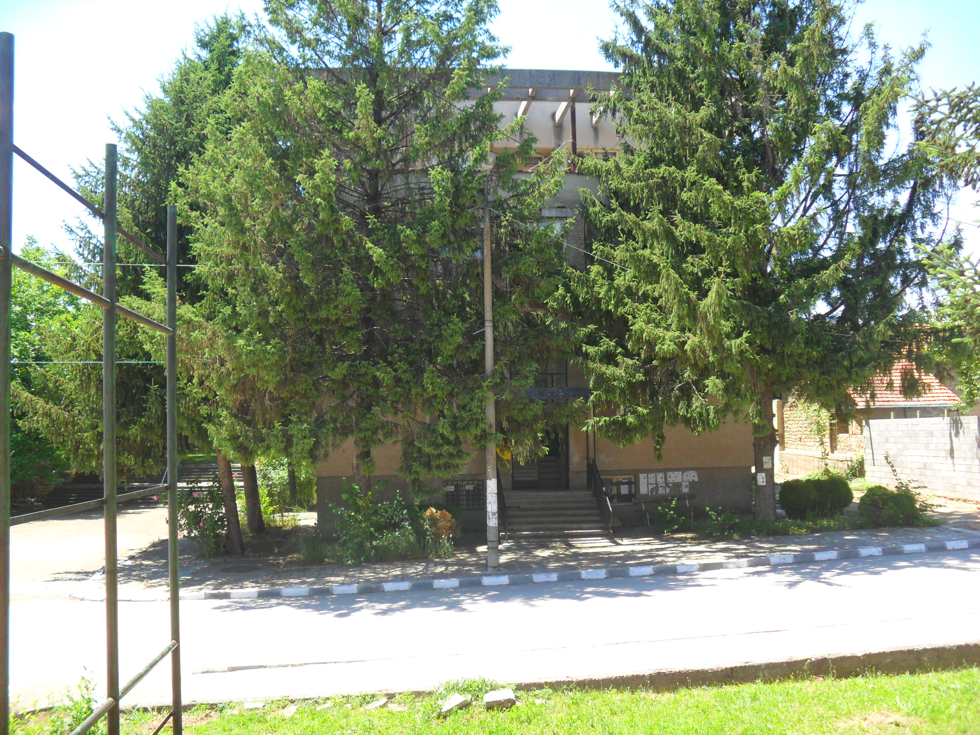 Post Office Building,constructed in 1974